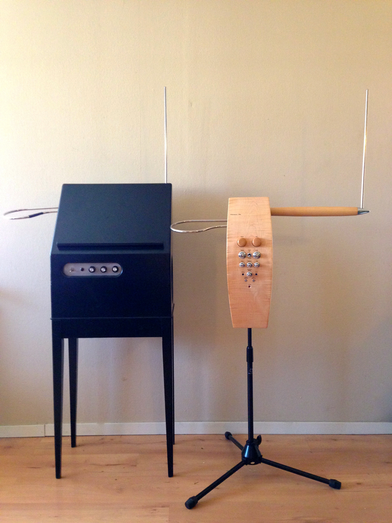 Customized theremin and Moog EtherWave Pro theremin